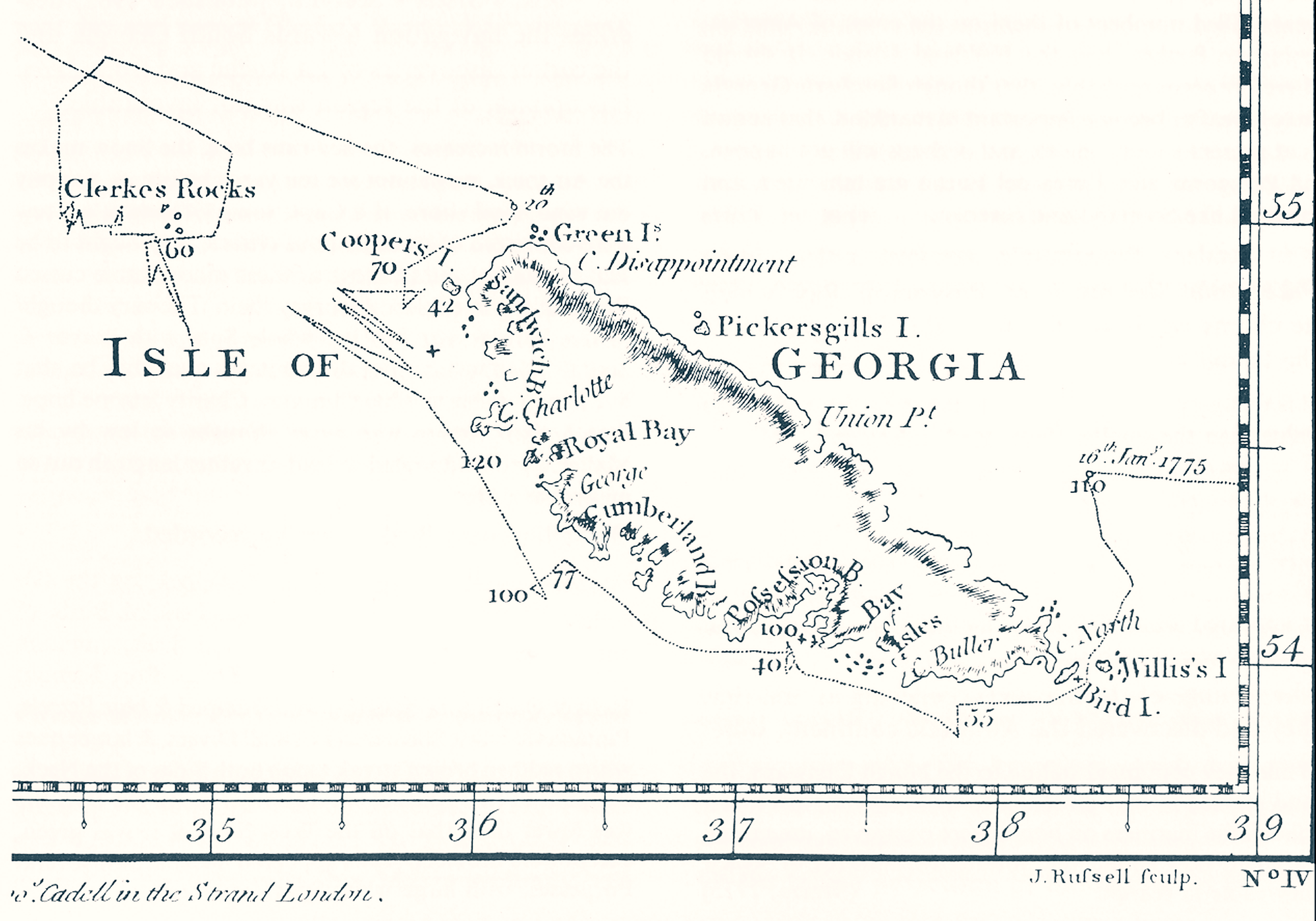 James Cook, Chart of the Discoveries made in the South Atlantic Ocean, in His Majestys Ship Resolution, under the Command of Captain Cook, in January 1775, W. Strahan and T. Cadel, London, 1777. (South-Up map, fragment)